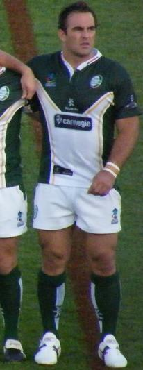 Ireland 2008 RLWC